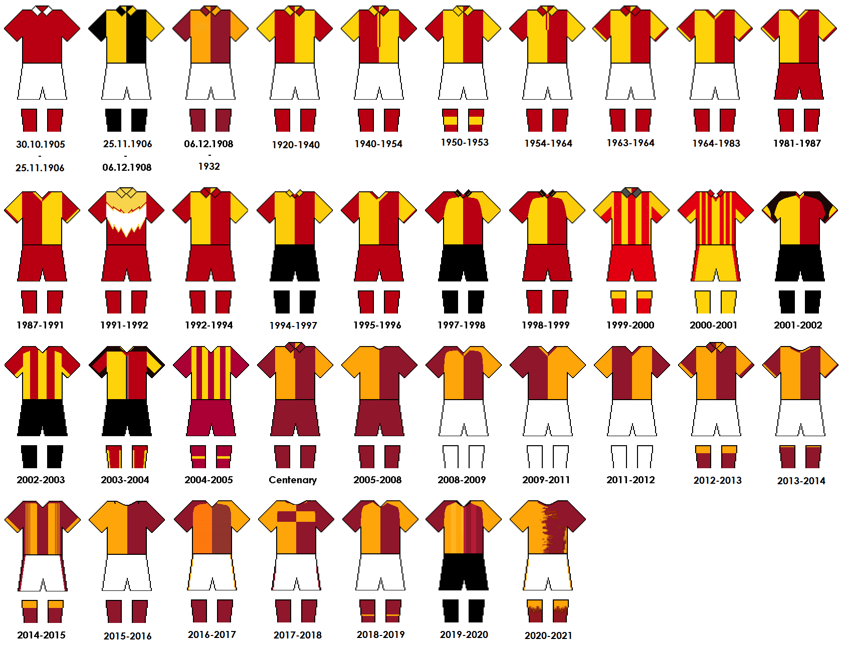 GalatasarayKitHistoryJuly2020